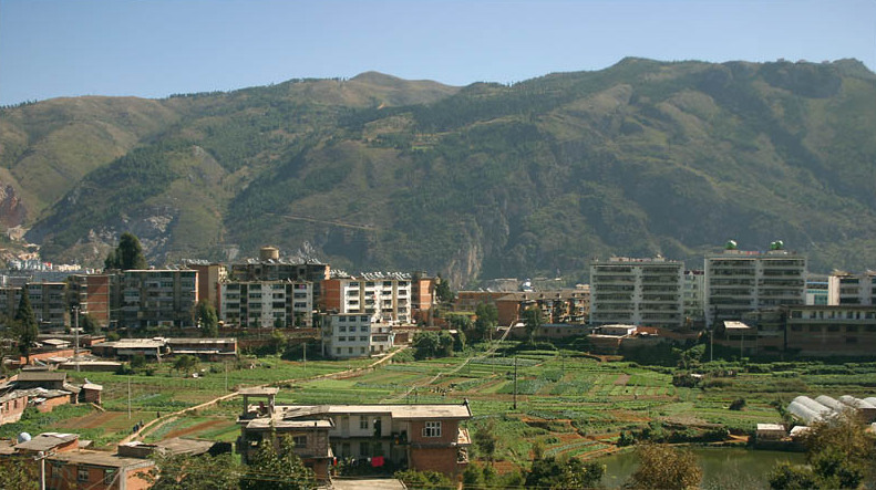 Looking from Gejiu's western hills to the east. The city falls below the buildings in the depression, and the eastern hills, which tower above the city, are visible in the background. Yunnan, China.